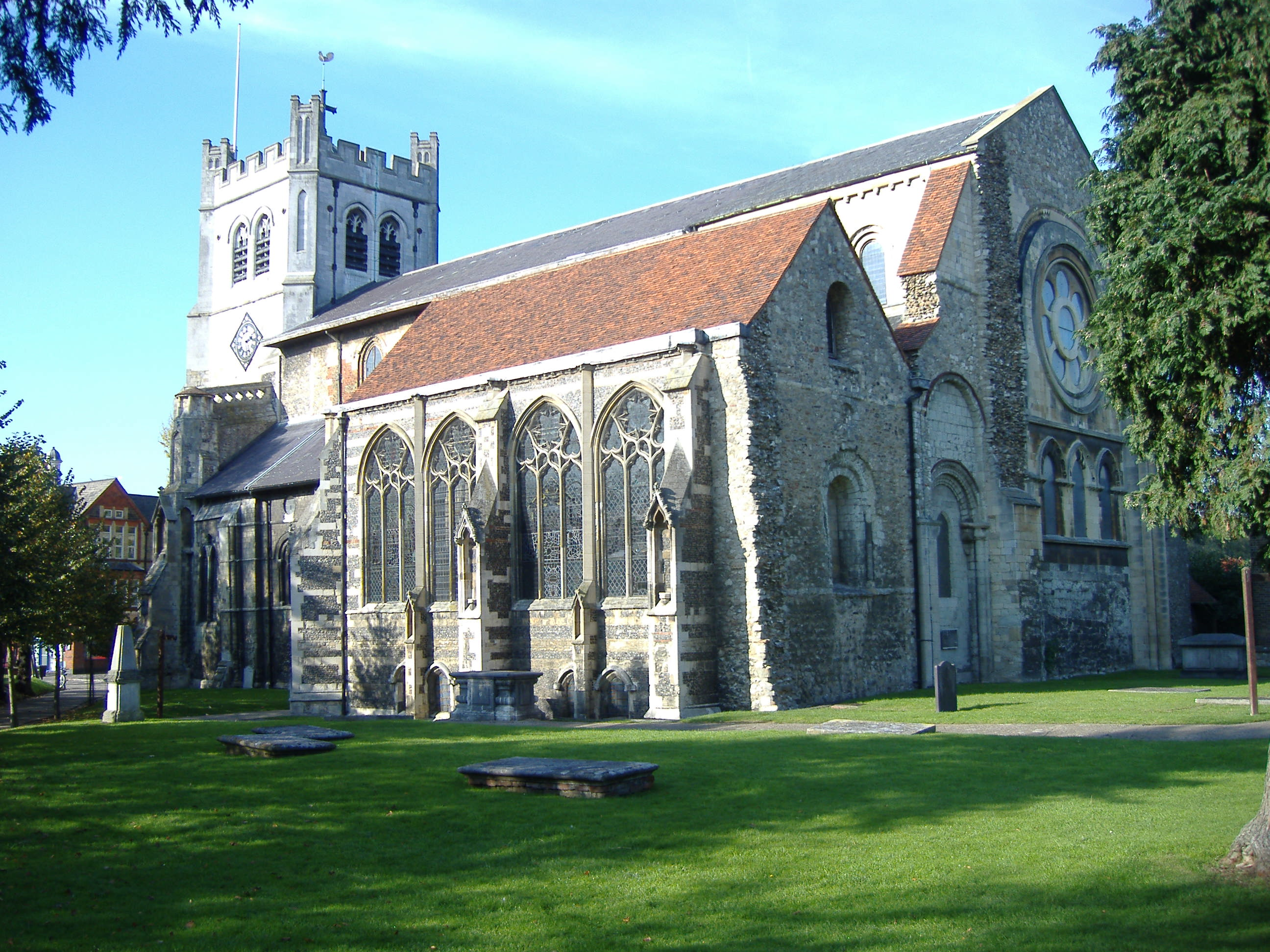 Waltham Abbey in the town of Waltham Abbey, Essex, England.